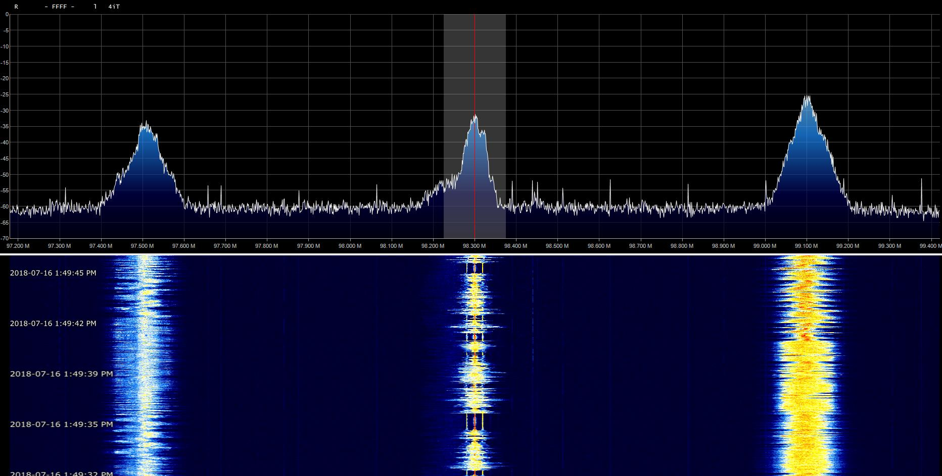 A waterfall plot in the FM broadcast band showing three strong local stations; speech and music show different patterns of frequency vs. time. Plot made from a software-defined radio